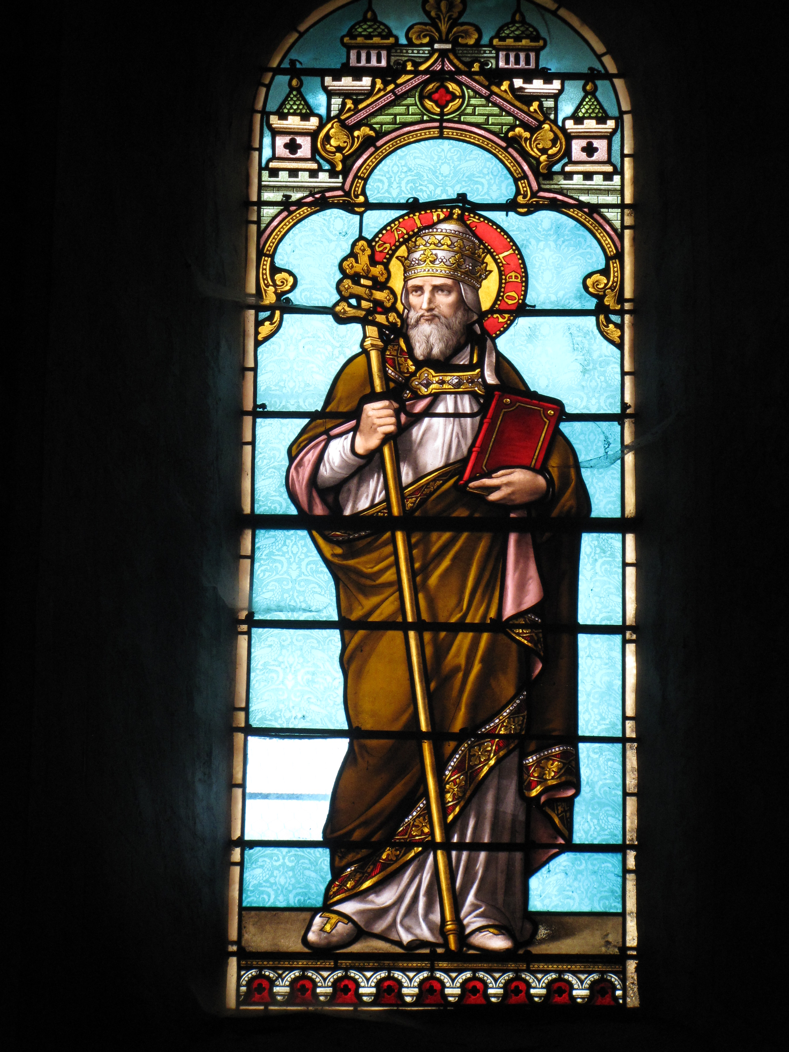 Pope Leon IX. Stained-glass window in Saint-Étienne church in Château-Renard, set in collateral chapel of north transept, east side. This side has two windows, this is the one on the left. Some writing underneath it says : "St Leo J.C. ex Virgine natum et nobis similem in terris apparentem mirabiliter praedicavit".Tetun: Pape Léon IX. Vitrail de l'église Saint-Étienne de Château-Renard, dans la chapelle collatérale du transept nord, côté est. Cette façade est a deux vitraux, ce vitrail est celui de gauche. Une inscription en-dessous indique : "St Leo J.C. ex Virgine natum et nobis similem in terris apparentem mirabiliter praedicavit".